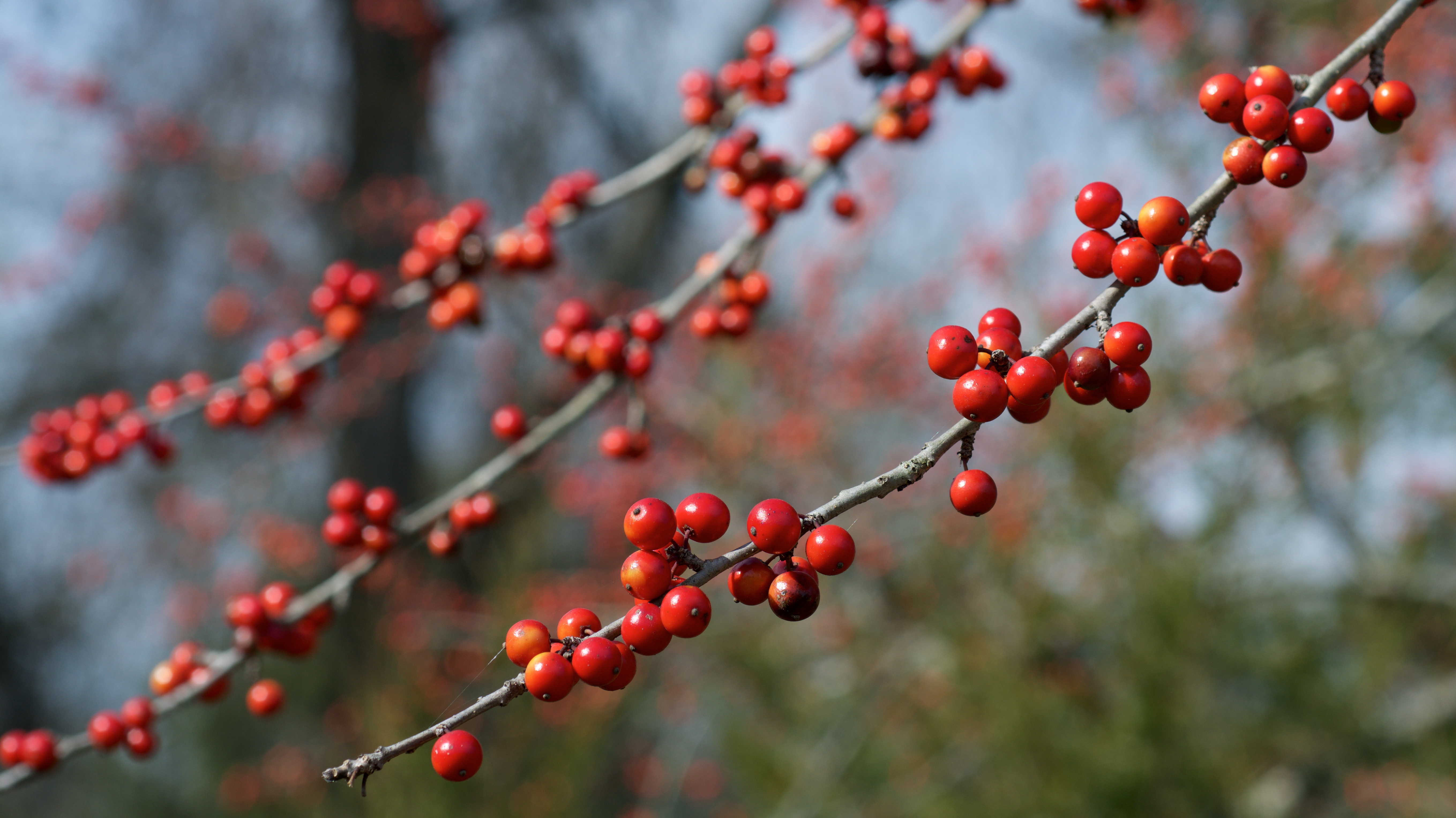 Species from south-central and southeastern North America Common name: possumhaw Photographed in Two Rivers Park, Little Rock, Arkansas